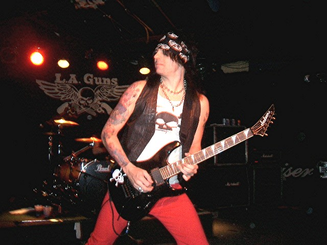 Stacey Blades at Northern Lights 2008